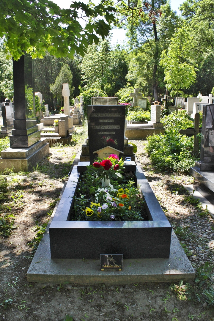 Tomb of Kálmán Benda and Gyula Benda